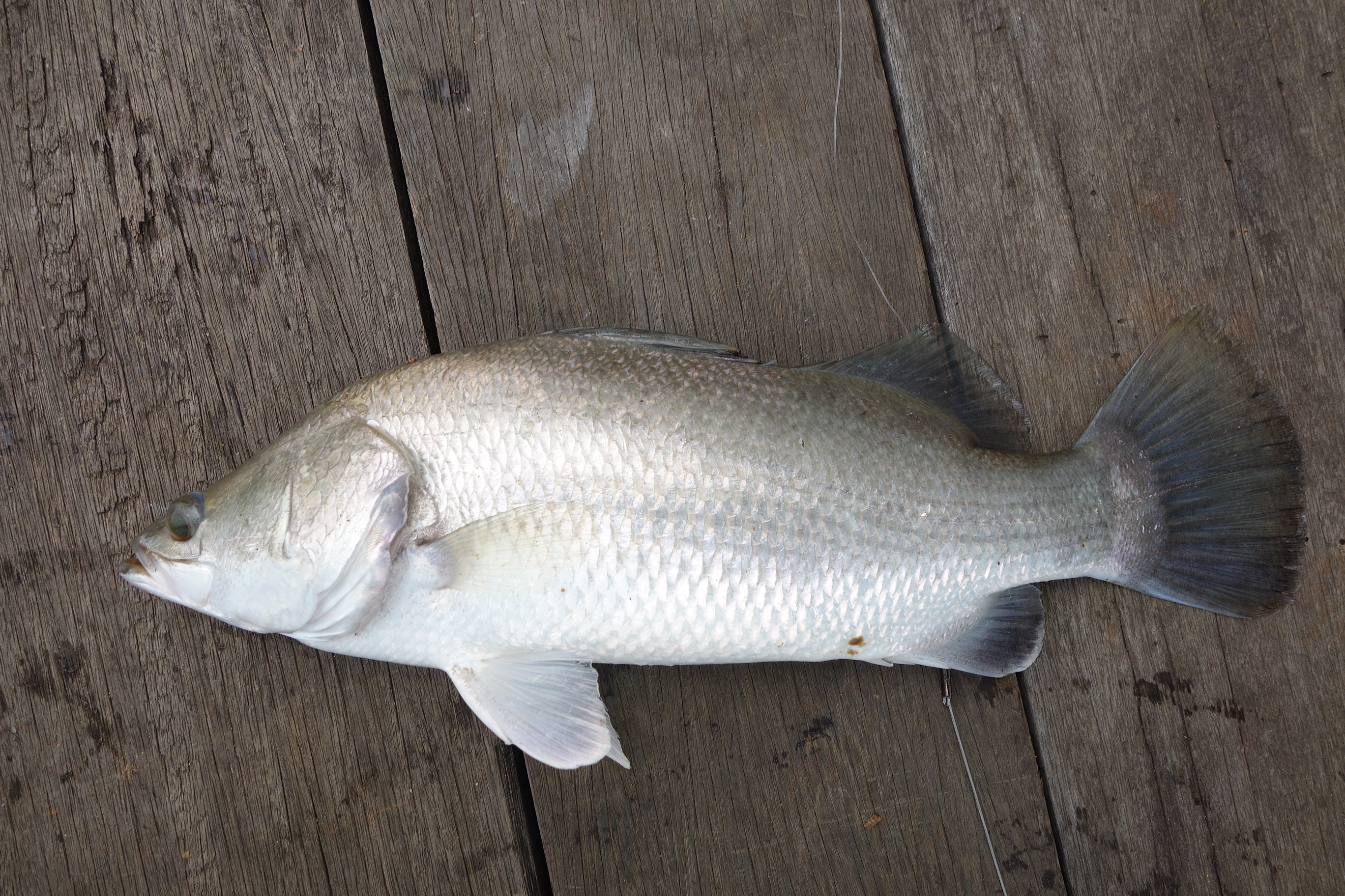 A barramundi (Lates calcarifer) caught in Jakarta region (Indonesia)